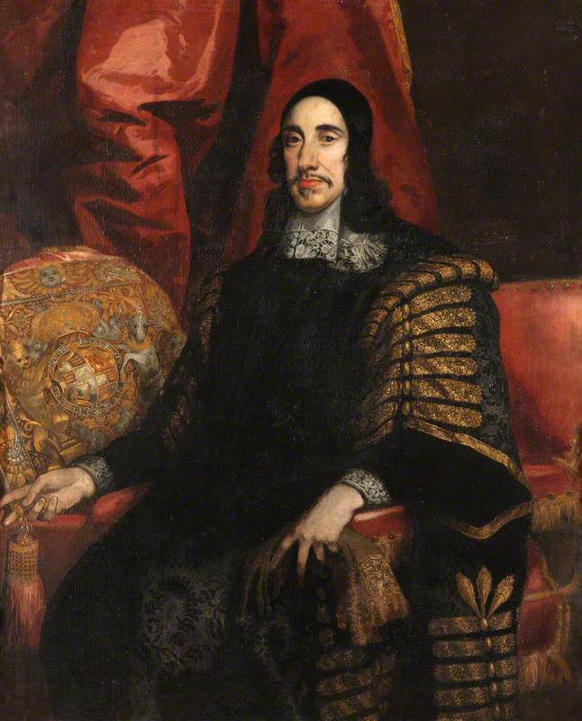 Portrait of Sir Orlando Bridgeman, Bt. (1606-1674), Lord Chancellor